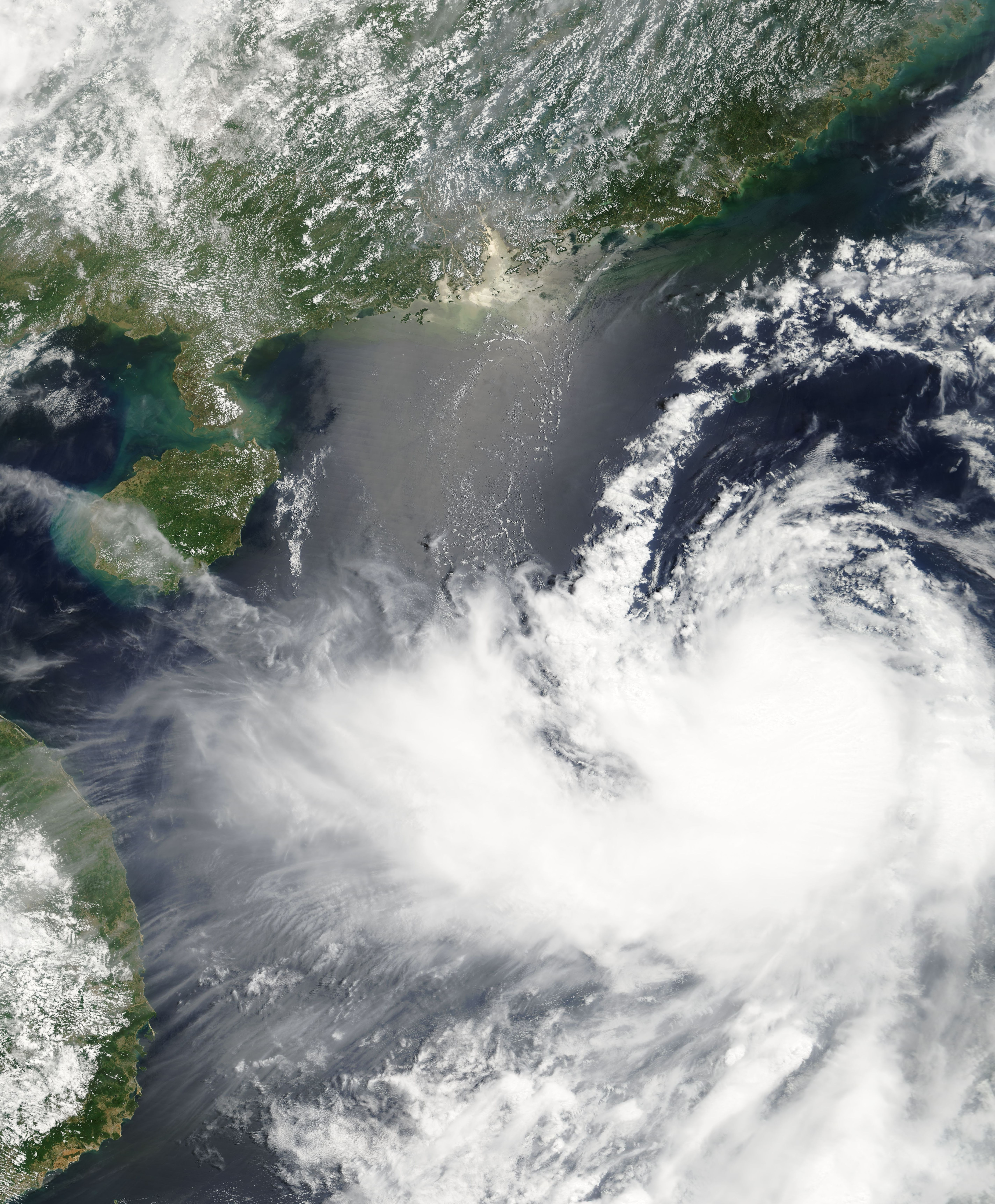 Tropical Storm Fengshen (07W) after landfall on June 23,2008